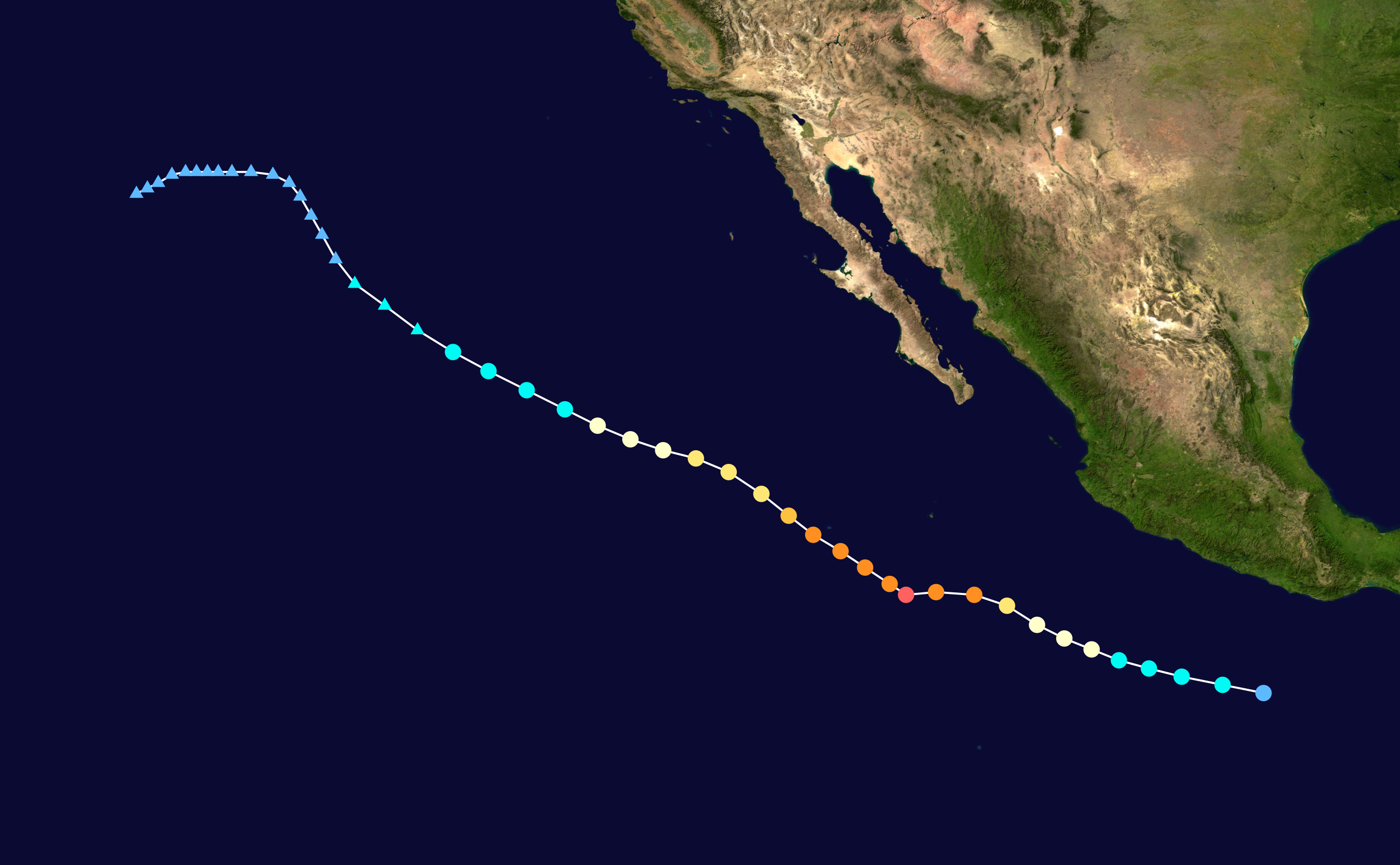 Track map of Hurricane Marie of the 2014 Pacific hurricane season. The points show the location of the storm at 6-hour intervals. The colour represents the storm's maximum sustained wind speeds as classified in the Saffir–Simpson scale (see below), and the shape of the data points represent the nature of the storm, according to the legend below. Saffir–Simpson scale Tropical depression≤38 mph≤62 km/h Category 3111–129 mph178–208 km/h Tropical storm39–73 mph63–118 km/h Category 4130–156 mph209–251 km/h Category 174–95 mph119–153 km/h Category 5≥157 mph≥252 km/h Category 296–110 mph154–177 km/h Unknown Storm type Tropical cyclone Subtropical cyclone Extratropical cyclone / Remnant low / Tropical disturbance / Monsoon depression